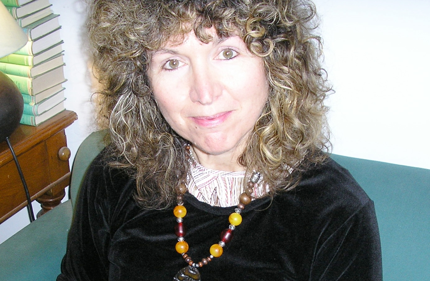 Caroline Lawrence, American author of novels for young adults